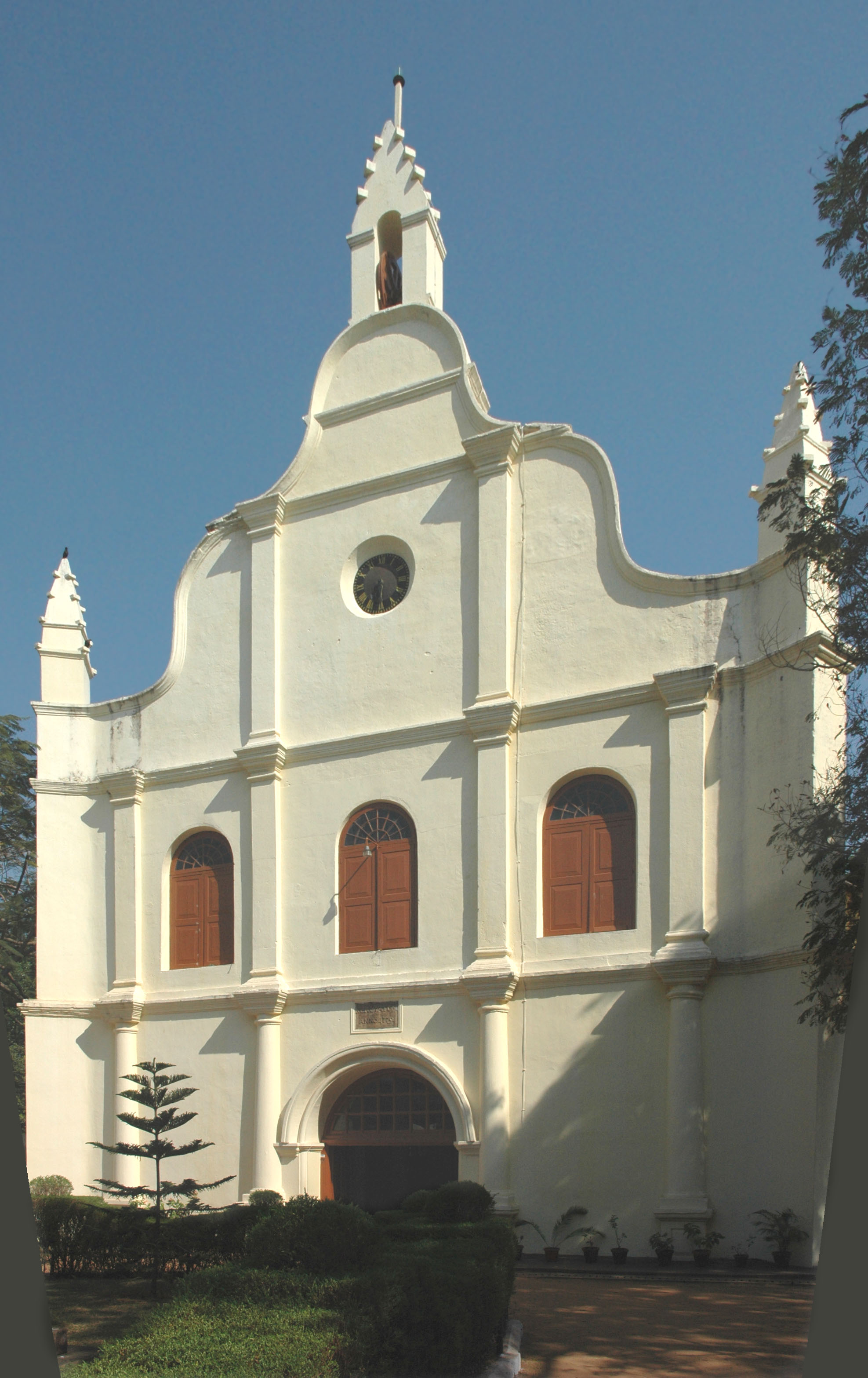 St. Francis church in Kochi/Cochin, India. - Google Maps - Google Earth Other photo's